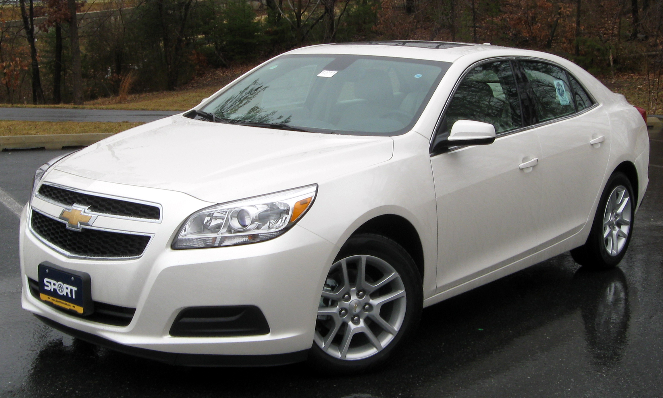 2013 Chevrolet Malibu photographed in Silver Spring, Maryland, USA.